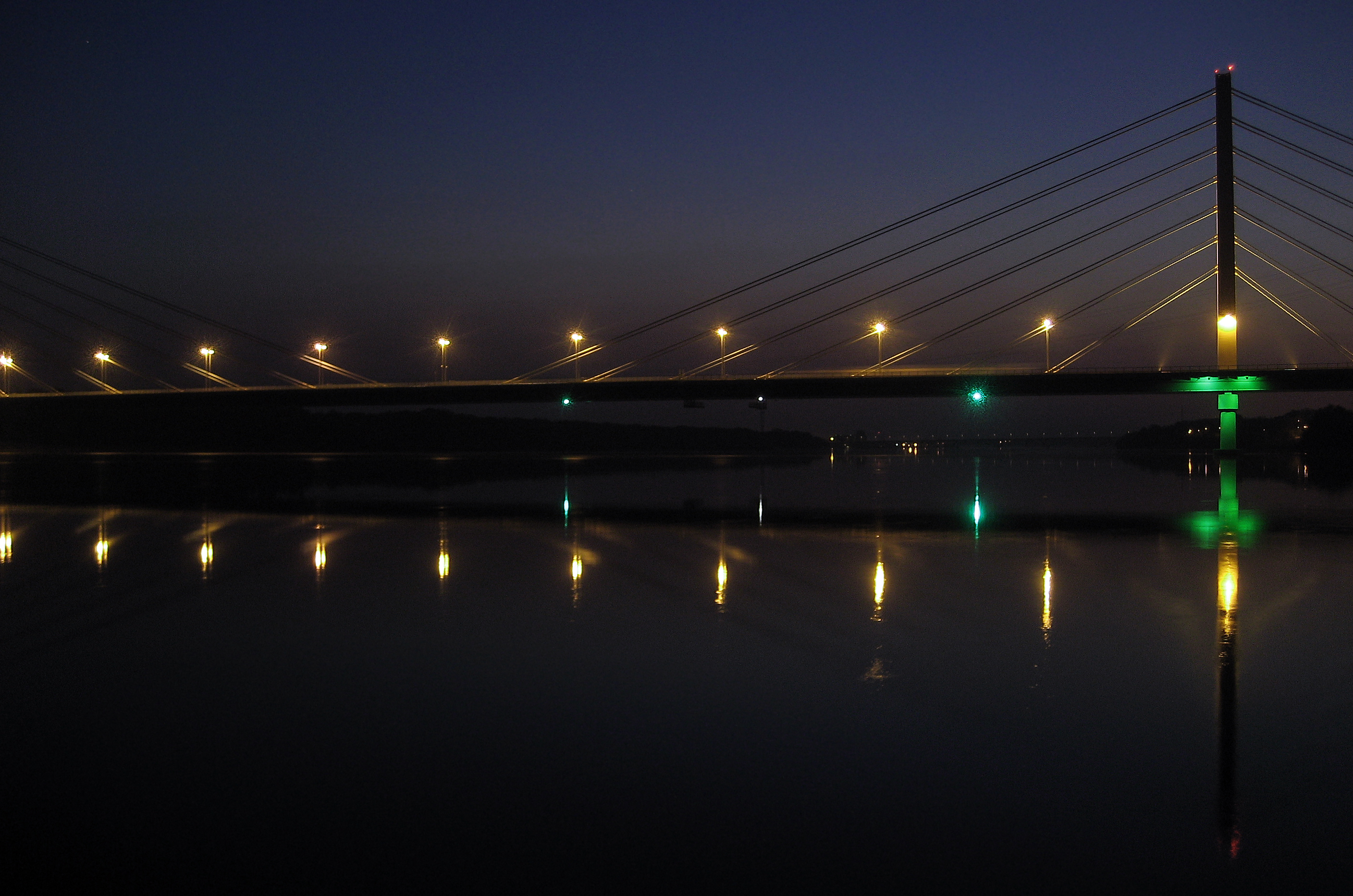 Solidarity Bridge by night